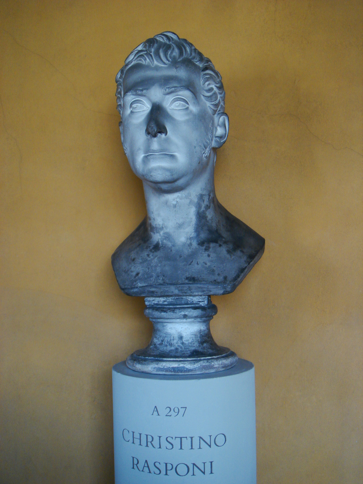 Bust of Cristino Rasponi by Bertel Thorvaldsen. Museum Thorvaldsen, Copenhagen. Picture by Stefano Bolognini.